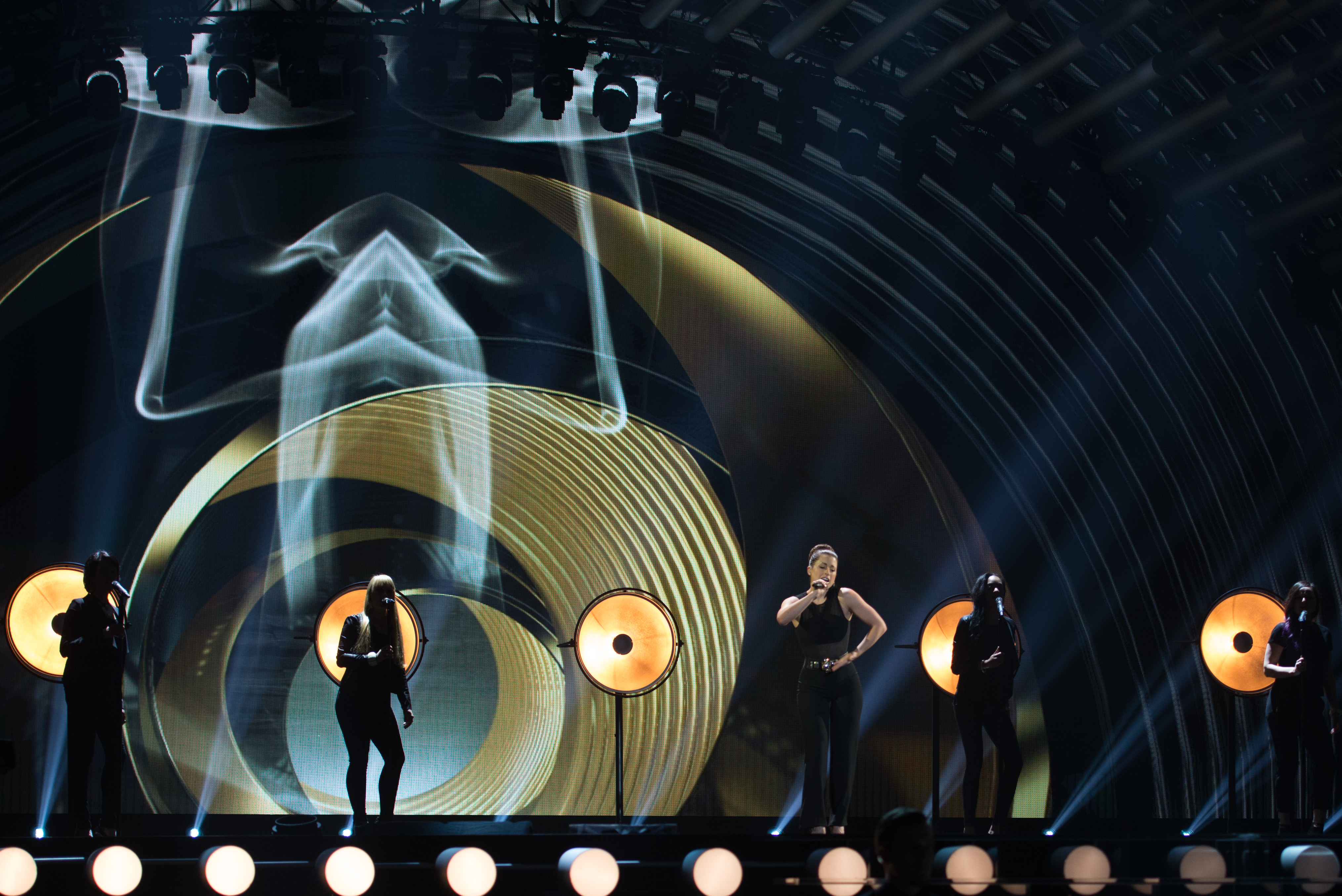 Eurovision Song Contest Vienna 2015: Ann Sophie